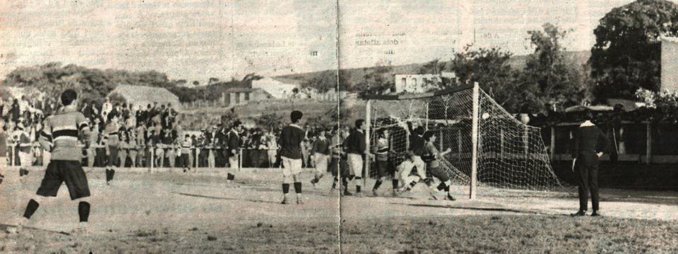 Grêmio FBPA vs. SC Internacional , Campeonato Citadino de Porto Alegre 1932.